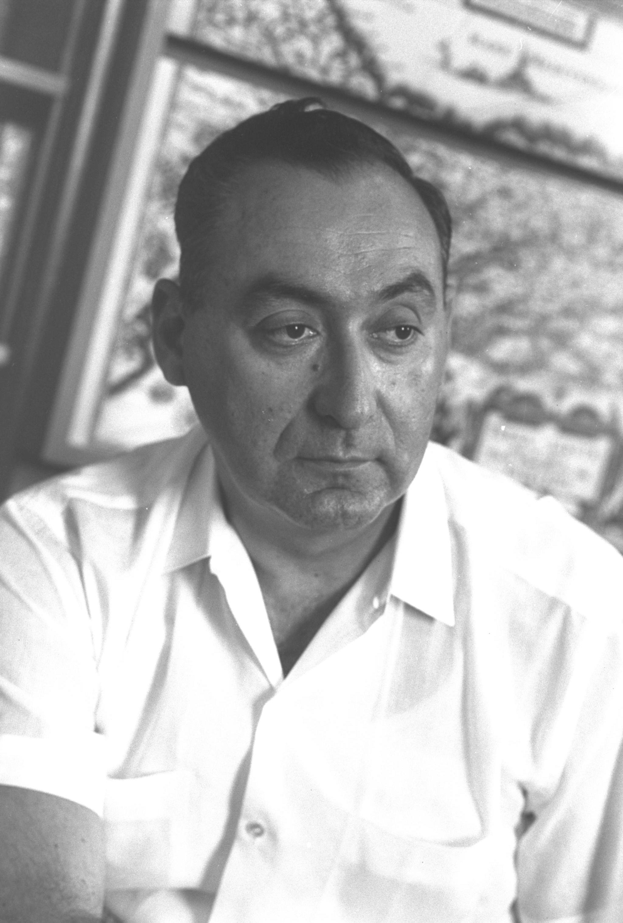 Portrait of dr. Zvi Dinstein, special advisor to the minister of defence.